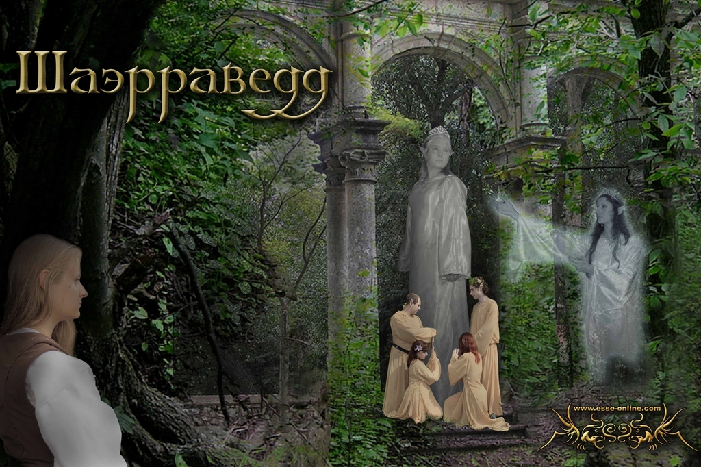 "Shaerrawedd". Fantasy rock musical of group "ESSE" -"The Road with No Return", based on the saga of A. Sapkowski "The Witcher". Official poster. Scene 5. Symphonic rock-group "ESSE". Darya Pronina (Cirilla Fiona Elen Riannon' (Ciri or the Lion Cub of Cintra), Zireael. Swallow), Victor Lobov, Ilya Bulenkov, Alexandra Pereverzeva, Olga Voronyuk (Elves) and Mary Barskaya (Elyrena, Aelirenn). (Poster - Anastasia Vorotnikova. Photo - Yuri Osadchy.)